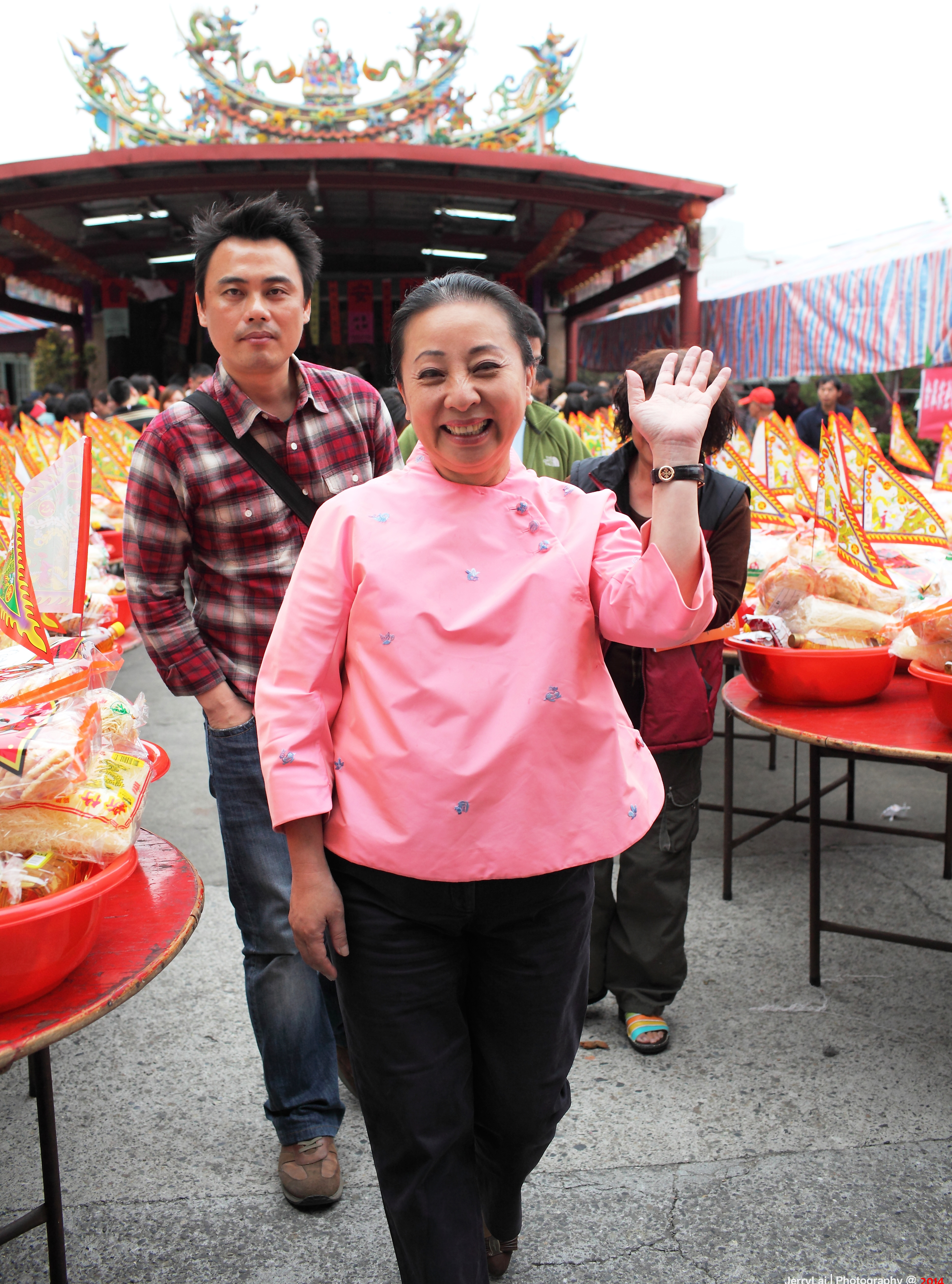 Helen Chang